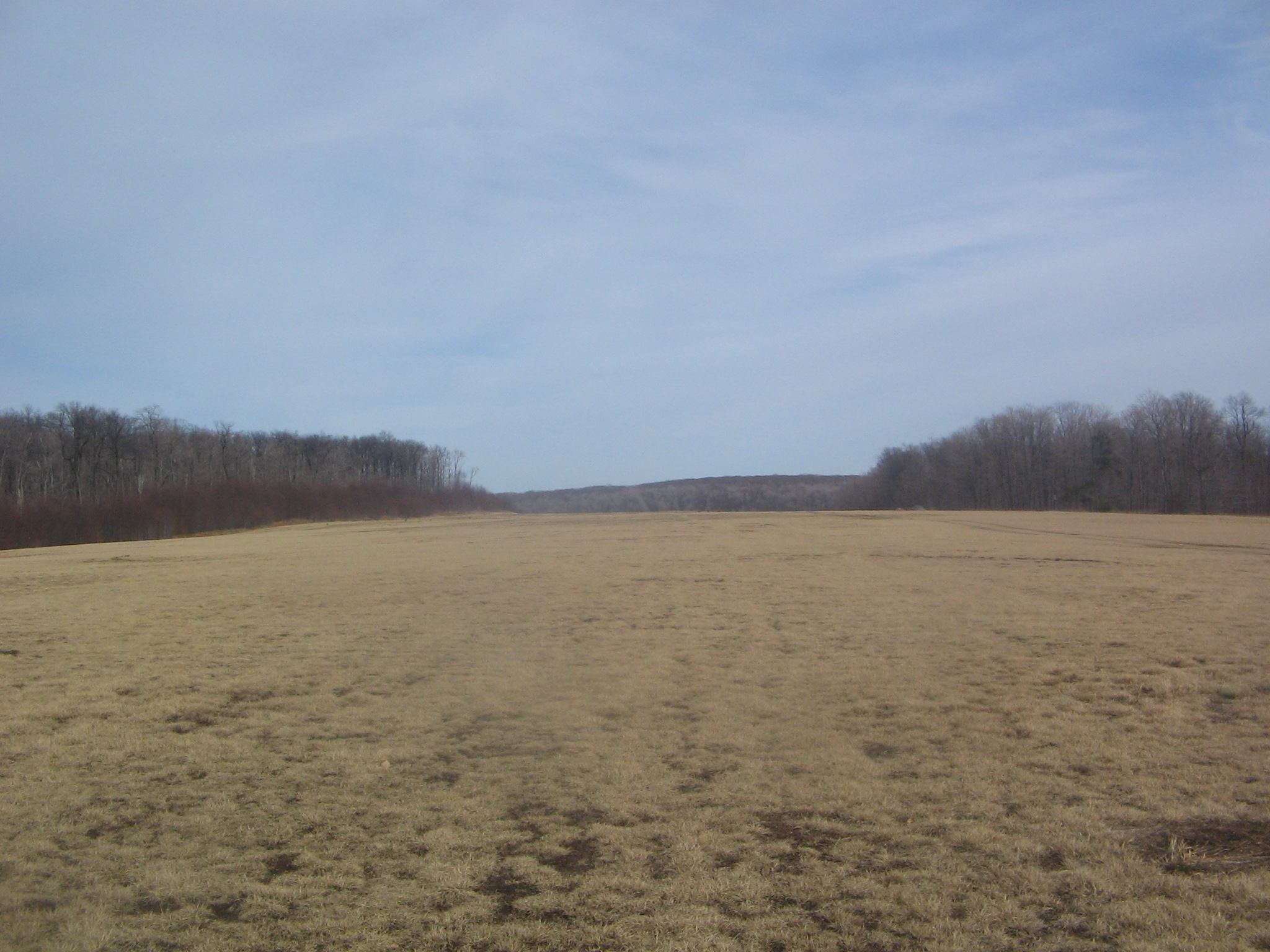 View looking down the landing strip of the former airfield at Cherry Springs State Park, West Branch Township, Potter County, Pennsylvania, USA.